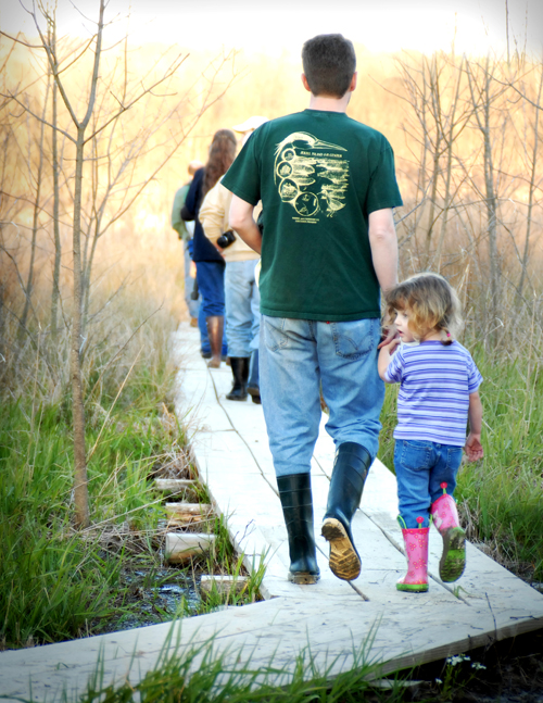 Bean Blossom Bottoms Preserve. Photo by Joni James.